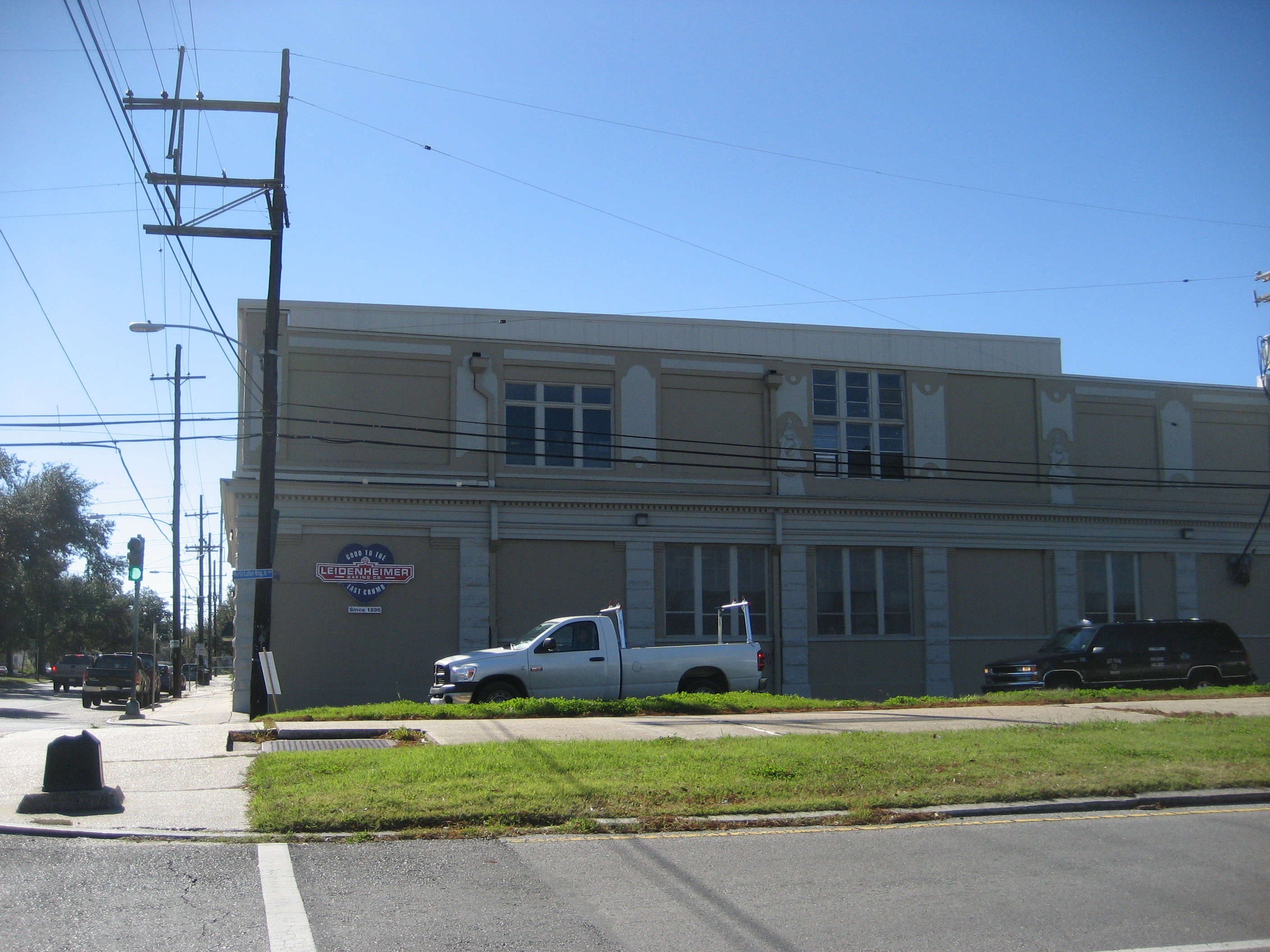 New Orleans: Leidenheimer building, one of the leading bakeries of po-boy bread, in Central City neighborhood.